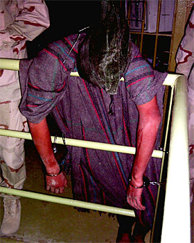 Abu Ghraib 78. 8:37 p.m., Nov. 3, 2003. Detainee handcuffed to rails with sandbag over head. All caption information is taken directly from CID materials. U.S. Army / Criminal Investigation Command (CID). Seized by the U.S. Government. Note: Was reproduced at